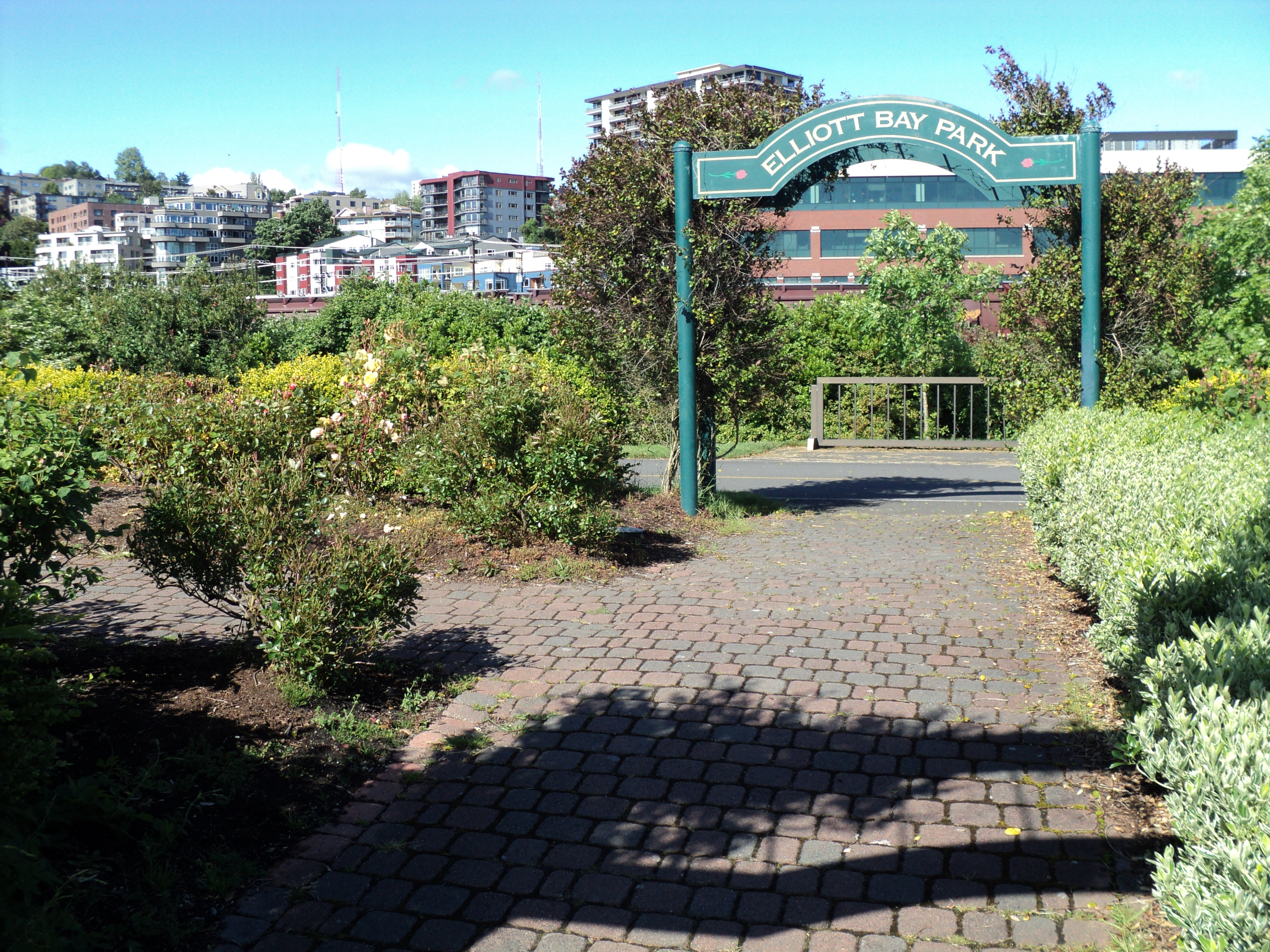 Sign for Elliott Bay Park (known as Centennial Park since 2011) at the rose garden on the Seattle waterfront along the Burke-Gilman Trail, Seattle, Washington.